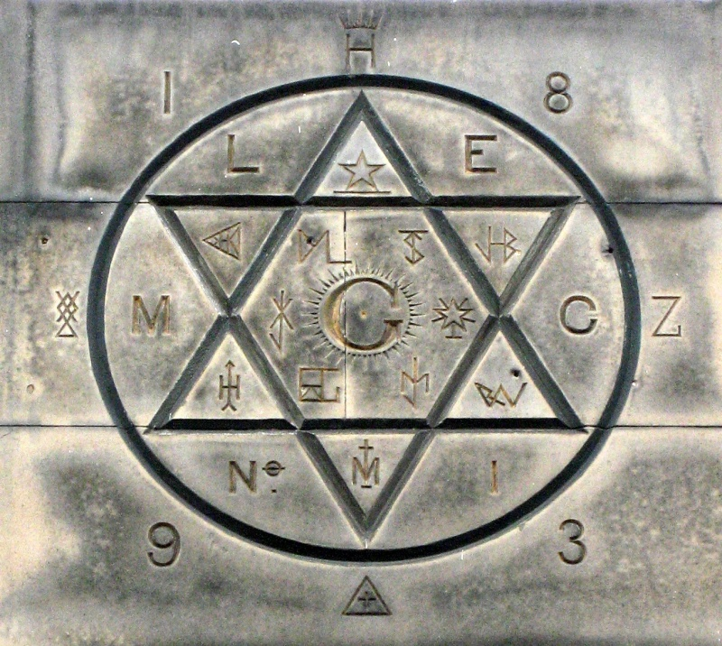 Solomon Seal for Lapislazuli Ring